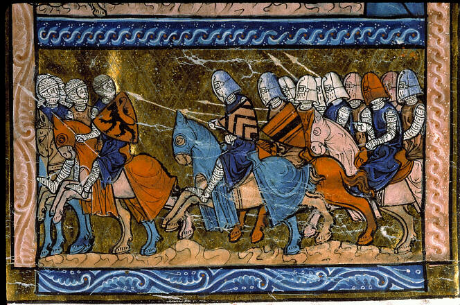 Battle of Fontenoy. Grandes chroniques de France, cca 1274